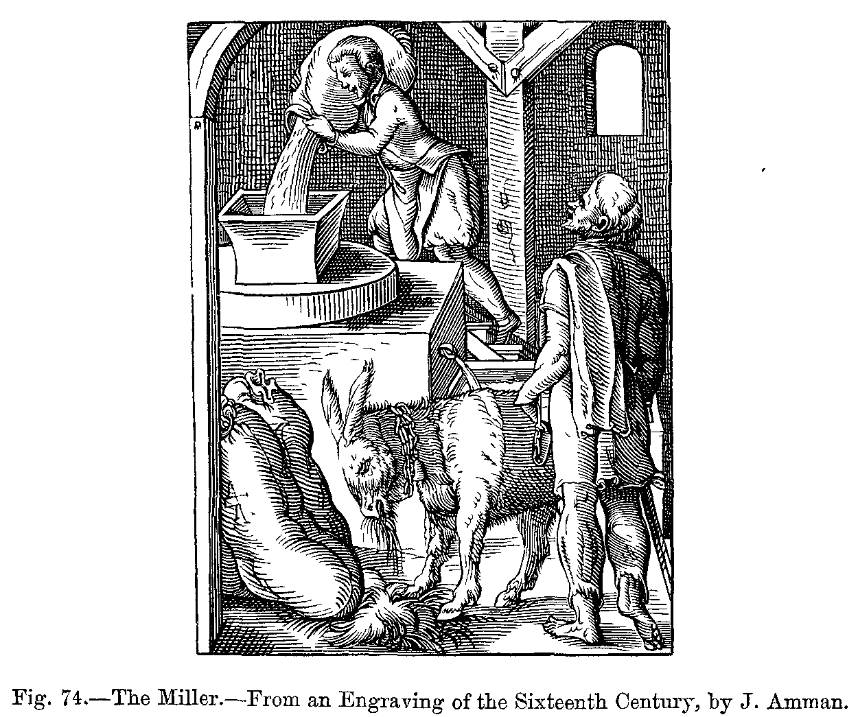 Miller from Das Ständebuch (The Book of Trades), 1568